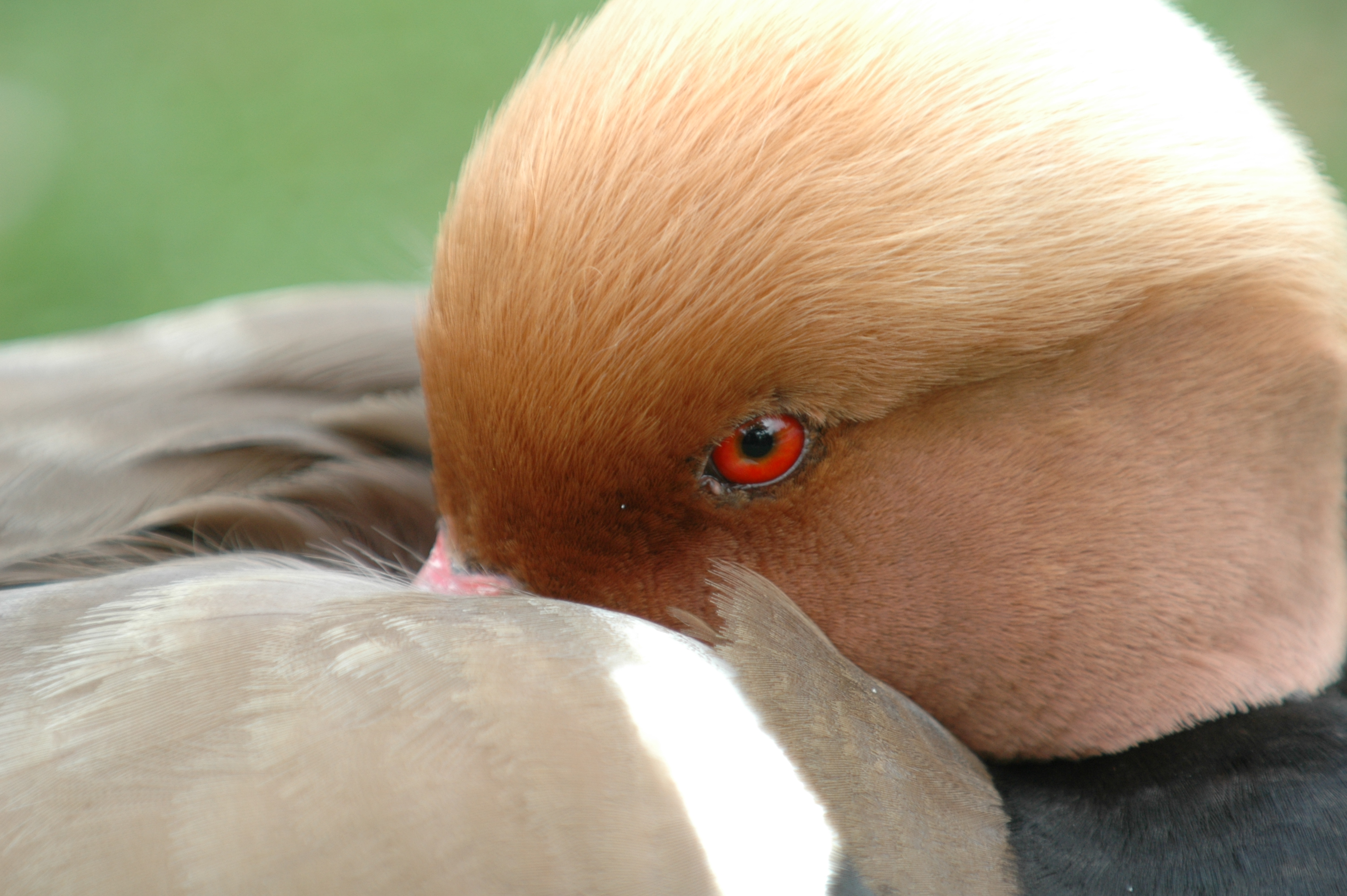 Red Crested Pochard taken in Surrey England.I'm watching you...